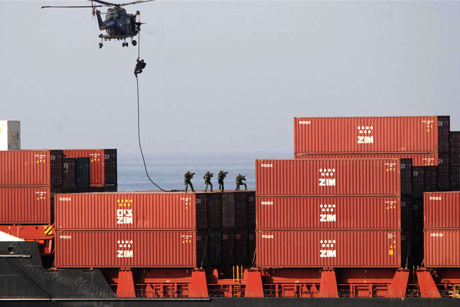 Liberation of MS Taipan by the Royal Netherlands Navy